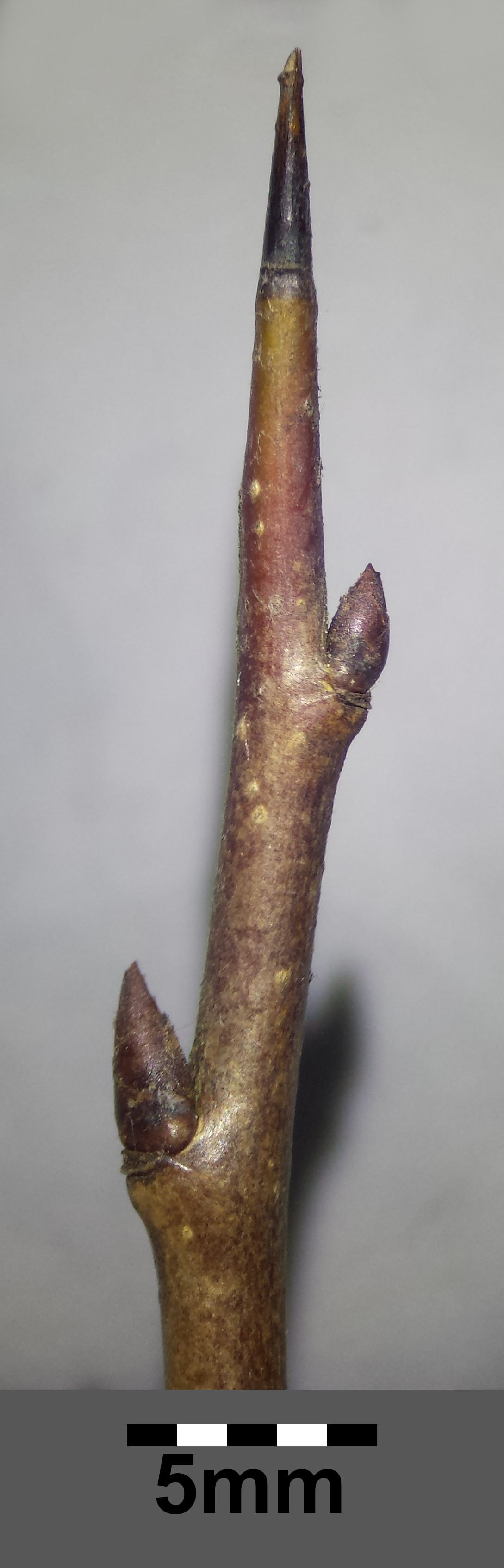 Spiny branch with buds Taxonym: Pyrus pyraster ss Fischer et al. EfÖLS 2008 ISBN 978-3-85474-187-9 Location: near Niederhollabrunn, district Korneuburg, Lower Austria - ca. 350 m a.s.l. Habitat: shrubbery